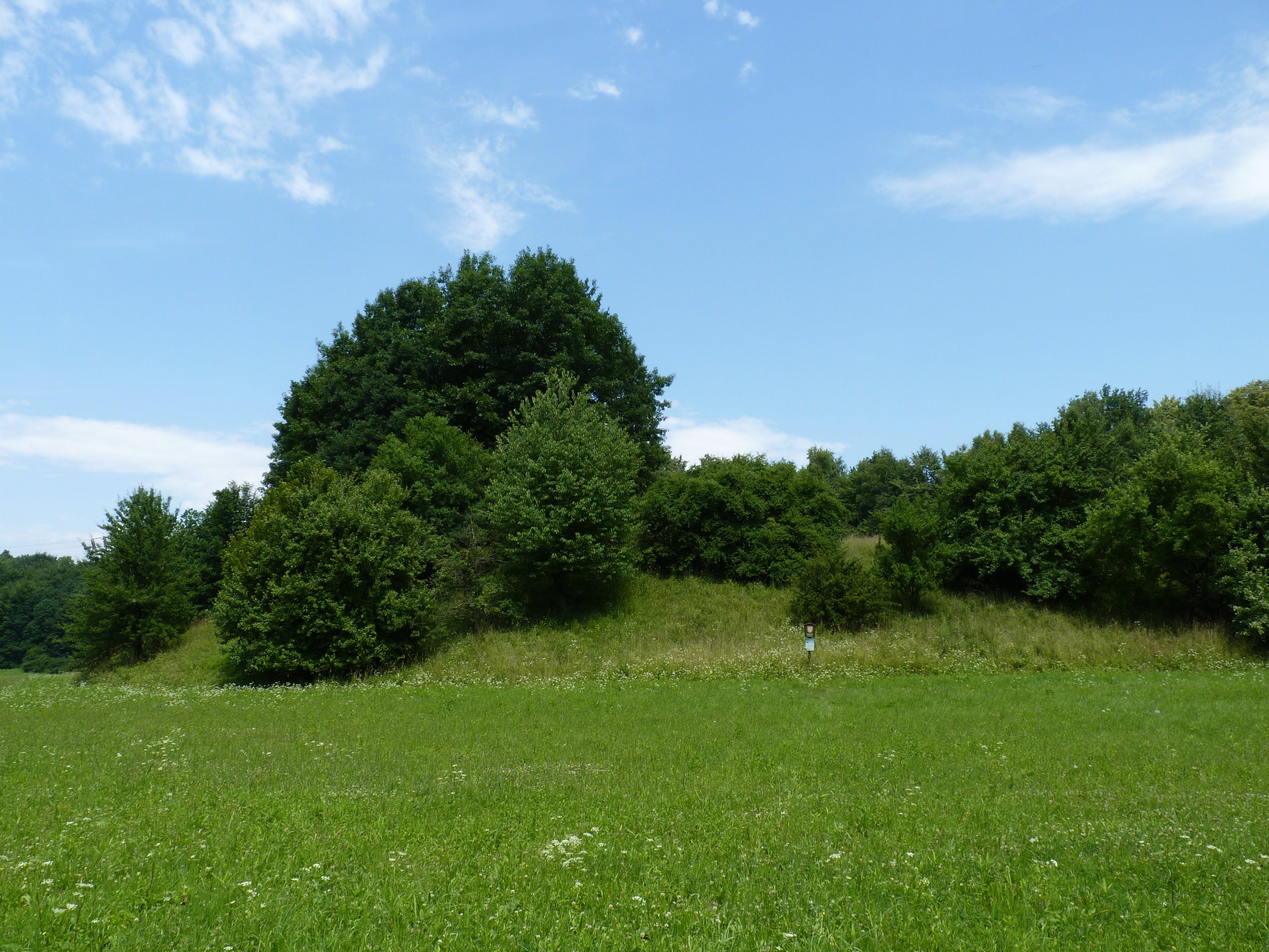 Natural monument Věřňovice. Karviná District, Moravian-Silesian Region, Czech Republic